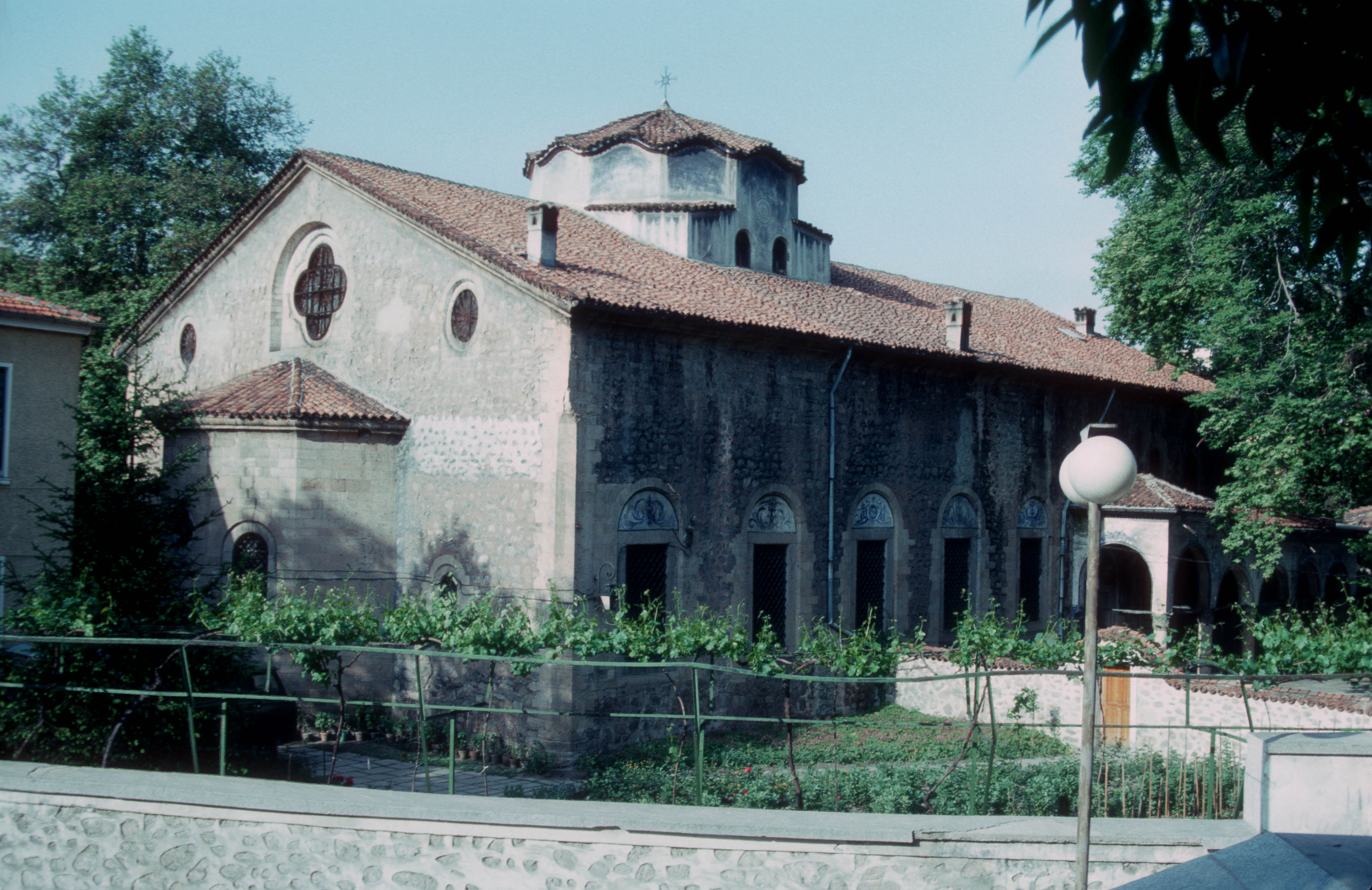 CHURCH OF ST. MARINA FROM 1850 WITH A WOODEN BELFRY. CHURCH IS EASTERN ORTHODOX